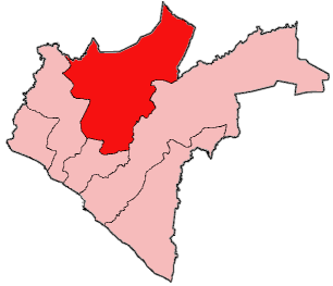 Map of Grand Bassa County, Liberia showing District #2; created with the GIMP. Made by User:Acntx.